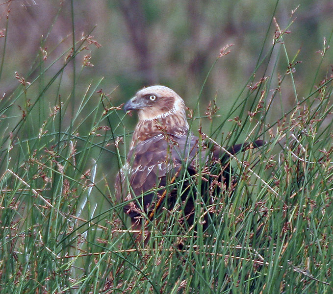 Eurasian Marsh Harrier Circus aeruginosus at/ near Hodal in Faridabad District of Haryana, India.